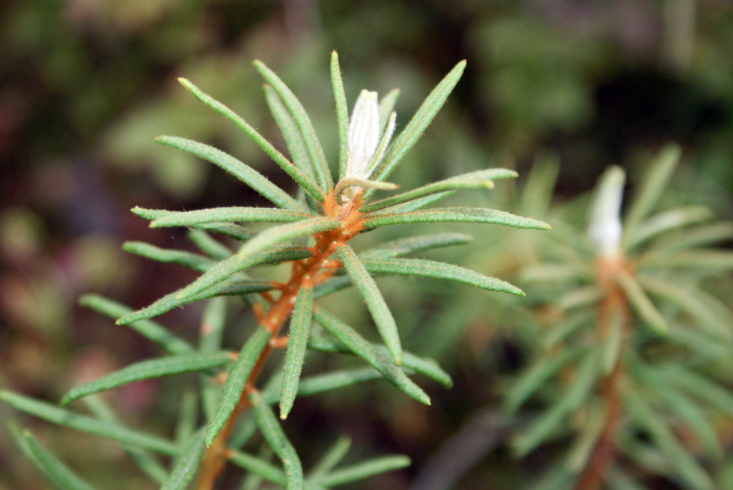 Ledum palustre - nature reserve Dury (Wda Landscape Park).